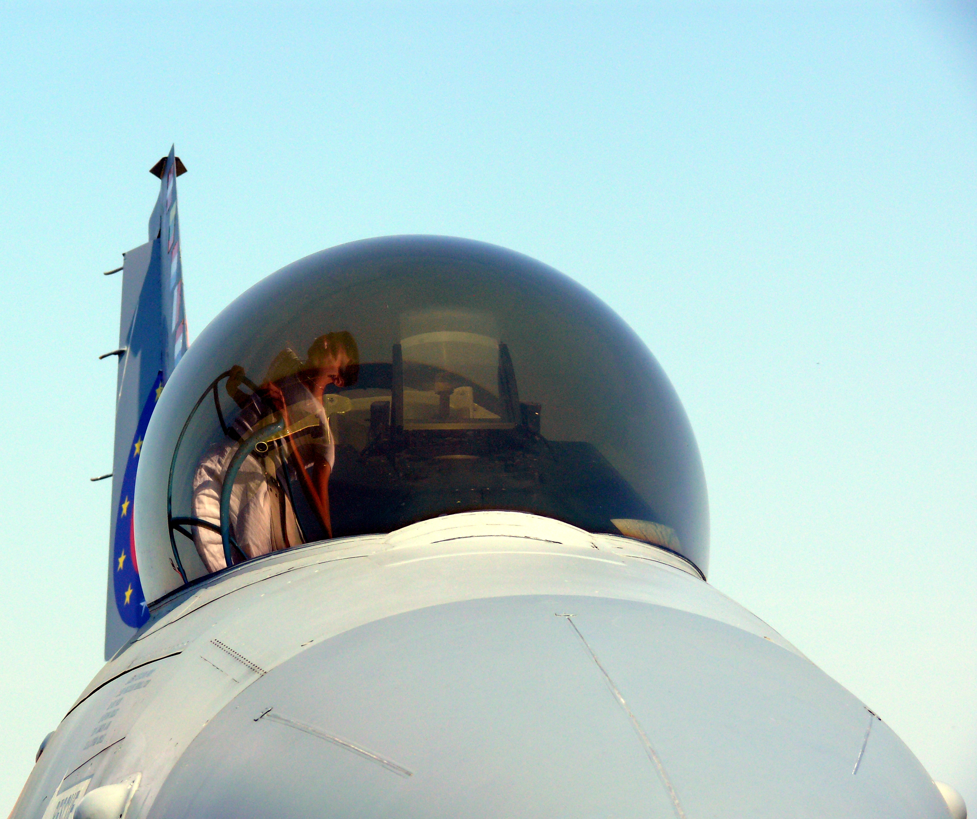 Canopy of General Dynamics F-16 Fighting Falcon at the Stampe Fly In 2011 (Antwerp international Airport).